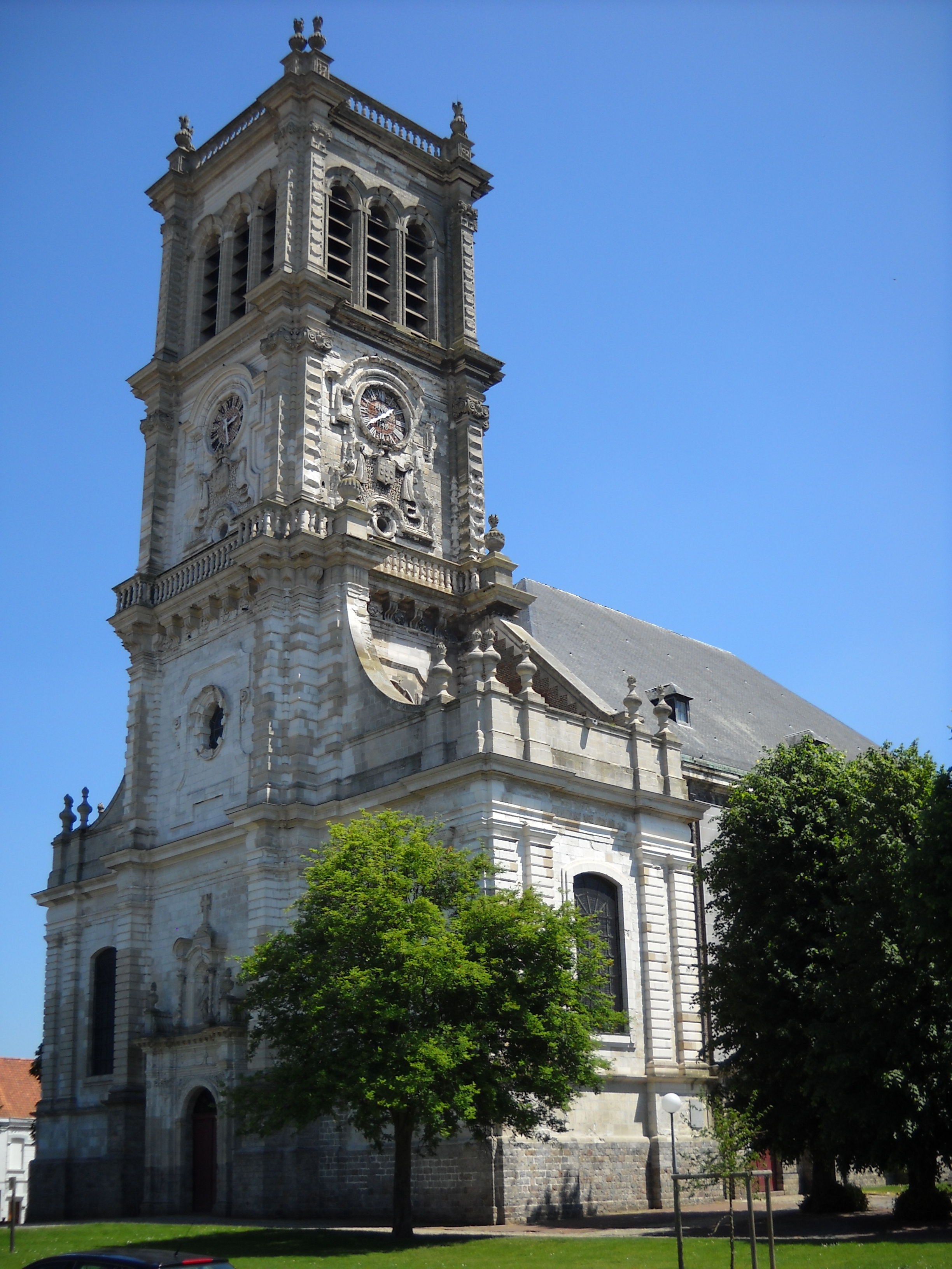 St.Martin's church, in Carvin, Pas-de-Calais, France.